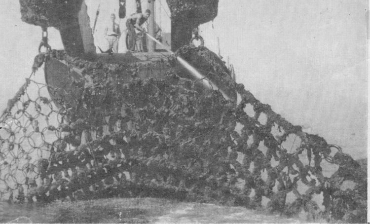 A Net Tender pulling up and hosing down net to remove seaweed and marine growth.